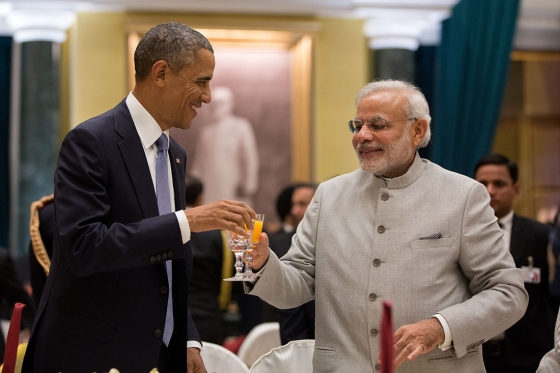 President Barack Obama toasts Prime Minister Narendra Modi during a State Dinner hosted by President Pranab Mukherjee at Rashtrapati Bhawan in New Delhi, India. January 25, 2015.